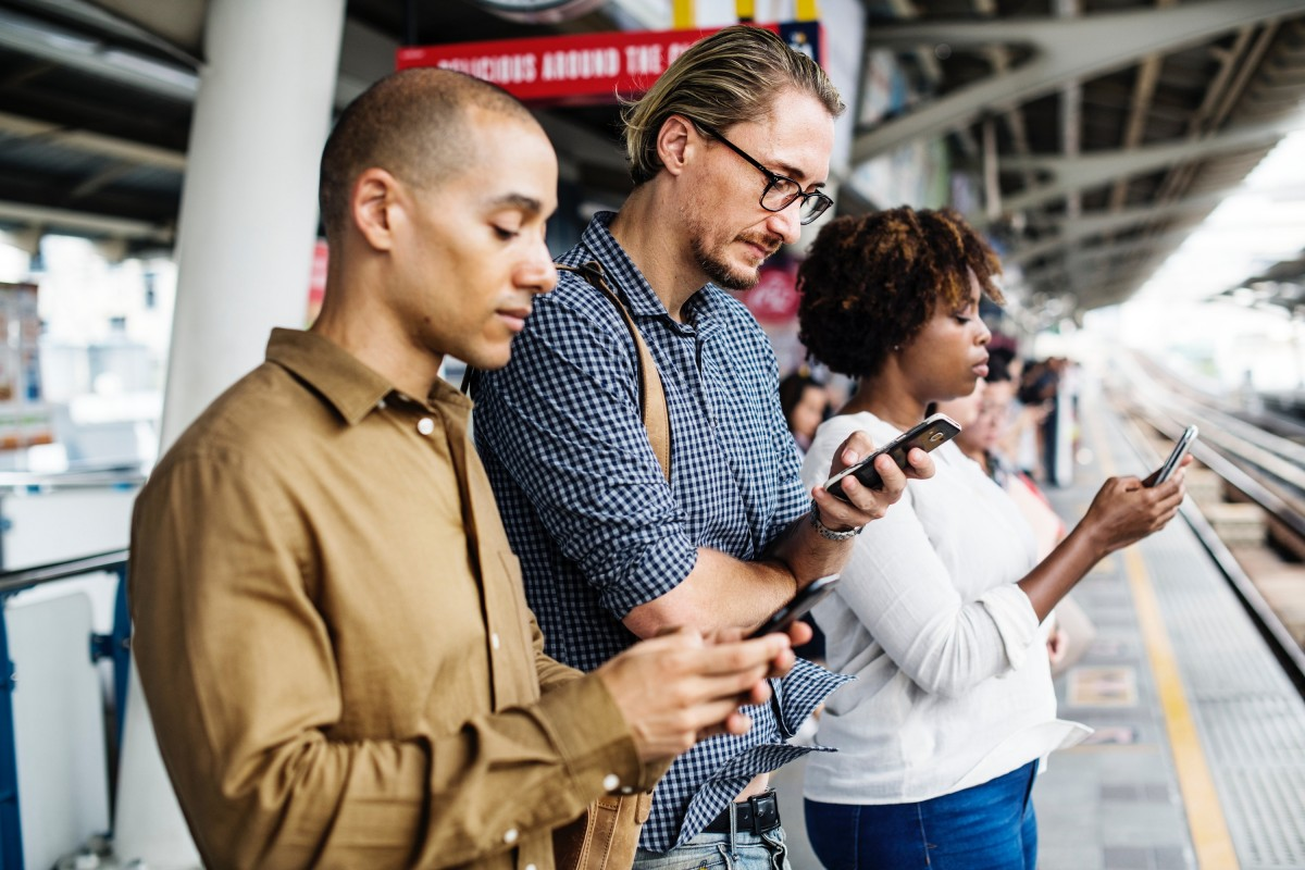 People using smartphones at a railway station